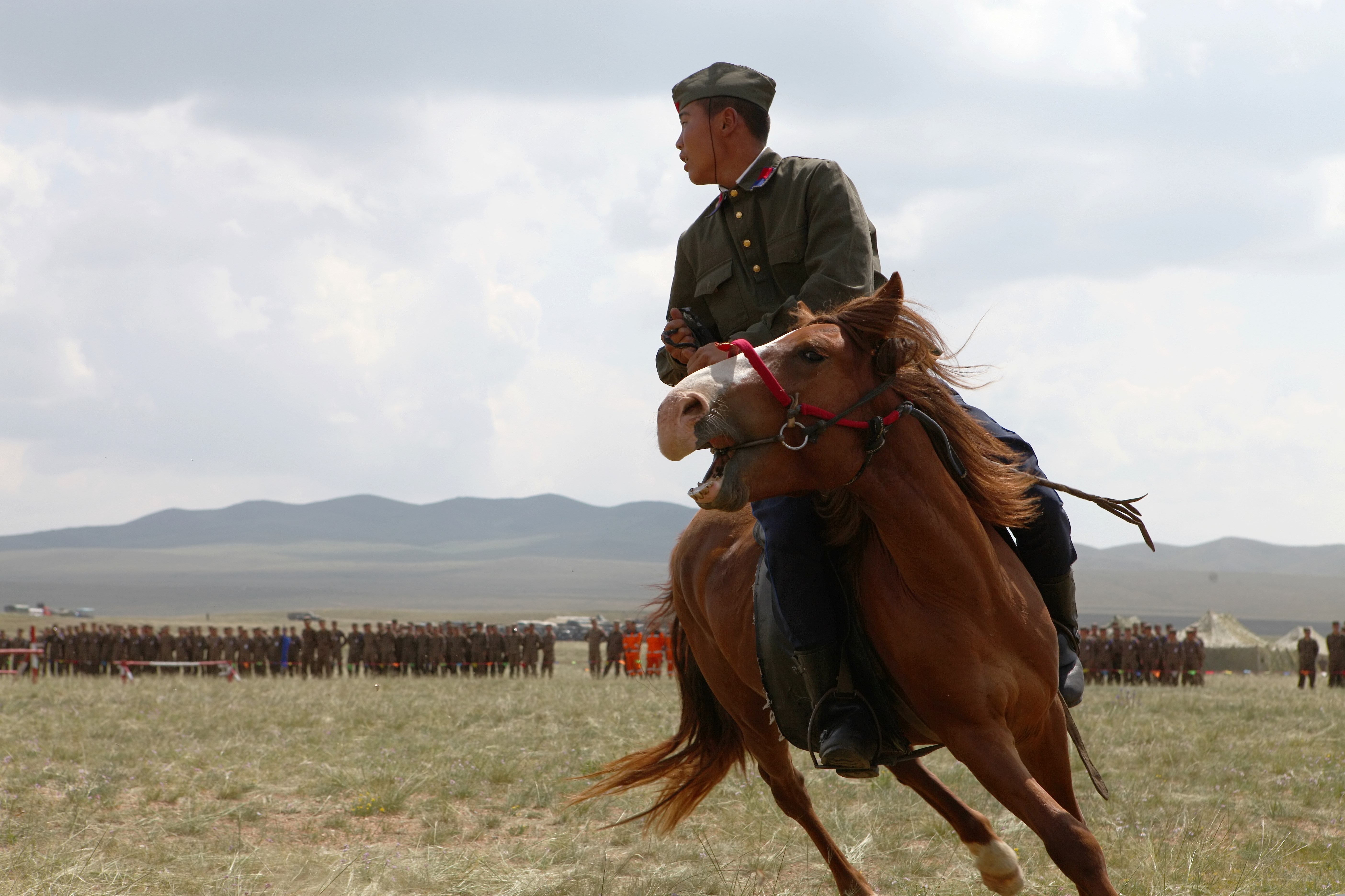 A Mongolian soldier performs during the opening ceremony for exercise Khaan Quest 2013 at the Five Hills Training Area in Mongolia Aug. 3, 2013. Khaan Quest is an annual multinational exercise sponsored by the U.S. and Mongolia, and it is designed to strengthen the capabilities of U.S., Mongolian and other nations’ forces in international peace support operations.